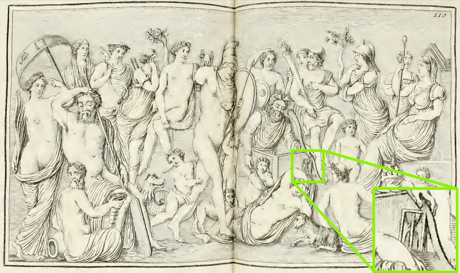 The first referenced representation of an hourglass it's in a sarcophagus dated ca. 350aD, representing the wedding of Peleus and Thetis, discovered in Rome in the XVIII century, and studied by Wincklemann in the 19th century, who made special emphasis on the hourglass held by Morpheus in his hands